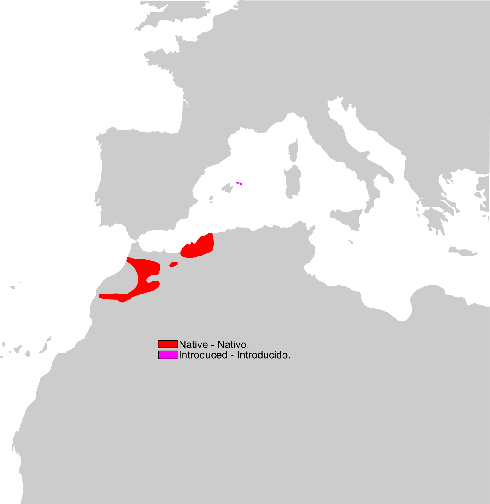 Scelarcis perspicillata distribution map.